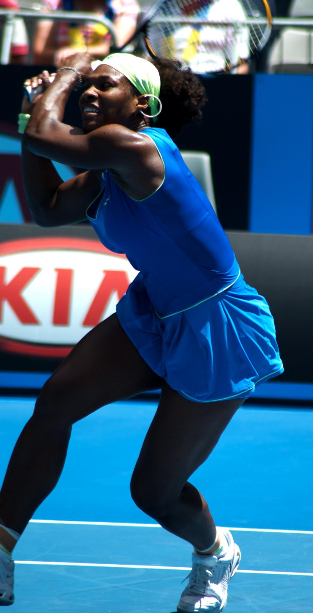 Serena Williams at 2009 Australian Open, Melbourne, Australia.